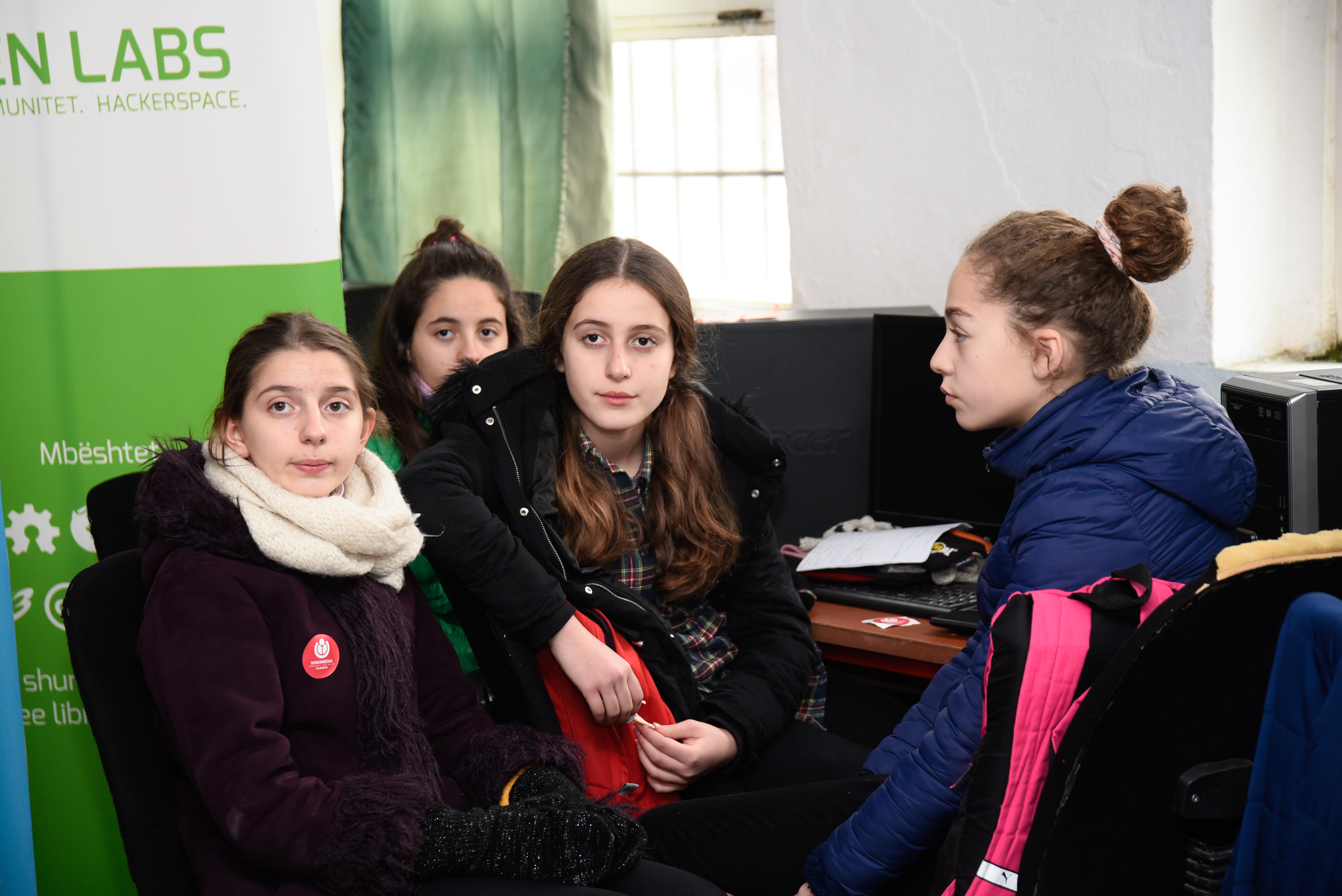 Activities during Code Week 2017 in Burrel, Albania where elementary students learned to contribute in Wikipedia projects and OpenStreetMap. These activities where held at Mustafa Gjestila elementary school and organised by Open Labs Albania and Wikimedia Community User Group Albania members.